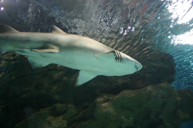 Sand tiger shark (Carcharias taurus) At Blue Planet Aquarium